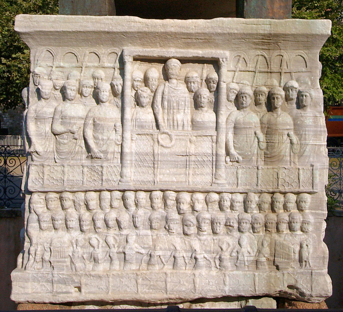 Obelisk of Theodosius, East face